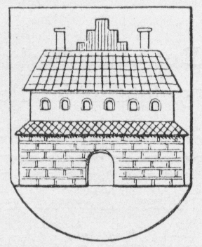 Coat of arms of Børglum Herred (Hundred), a former administrative subdivision of Denmark, 1584 version. Illustration from the article Om danske By- og Herredsvaaben written by Anders Thiset and published in Tidsskrift for Kunstindustri 1893-1894.